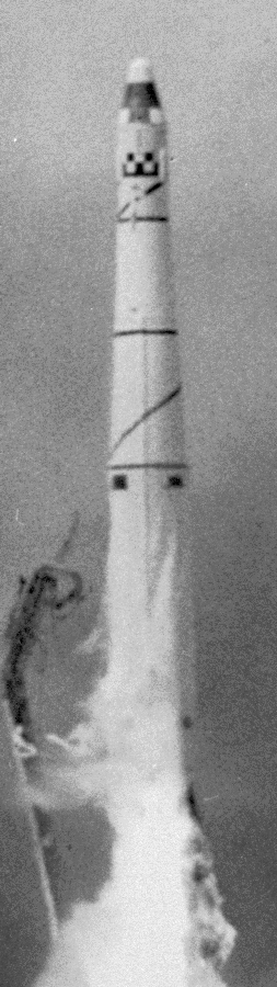 Launch of the Thor Agena A rocket with Discoverer 5 satellite (Corona KH-1 type), 13 August 1959.